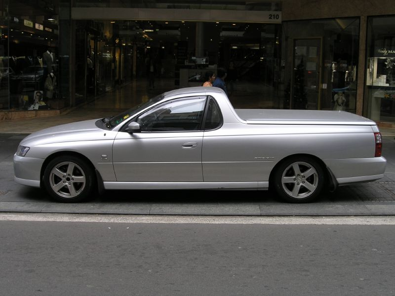 2004 Holden VY II Ute Storm S.